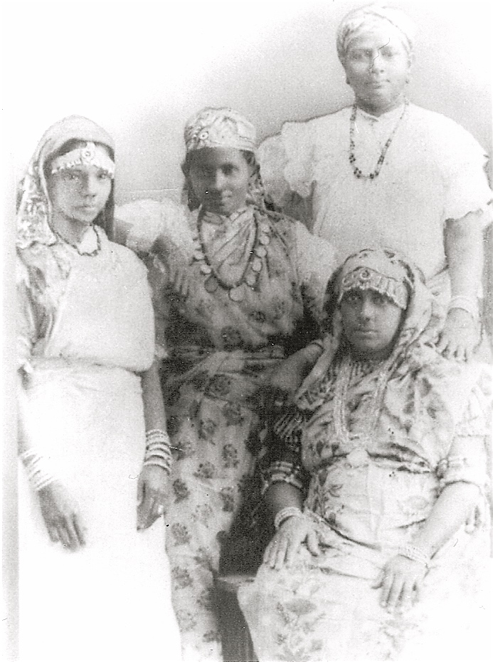 Lady Valiama & three of her daughters Mayotte, Julia, & Anise